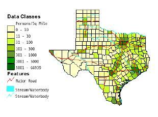 Texas Population Density - 2000. I created this file using a utility on the US Census Bureau web site and then modified it using a Paint program.